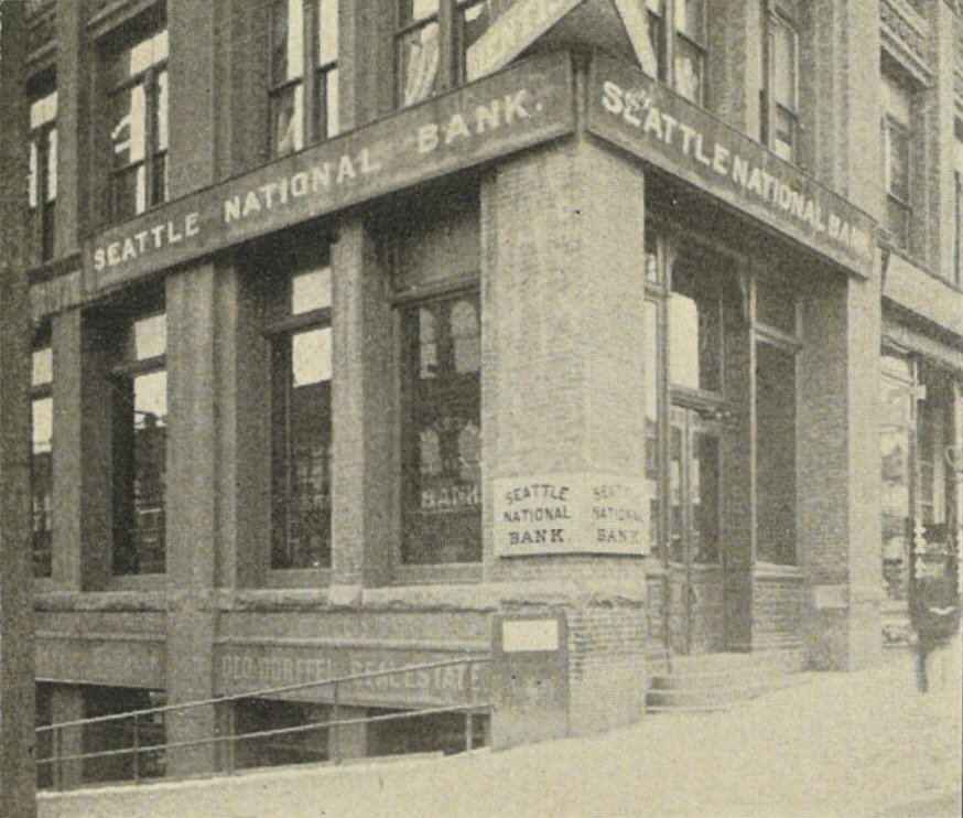 "The Seattle National Bank," from brochure Seattle and the Orient (1900). Besides several signs with the bank's name, a sign can be seen above at the corner saying "Dentist" and on lower level saying "Geo. Dorffel Real Estate". In 1929 the Seattle National Bank merged with the Dexter Horton National Bank and the First National Bank Group to form the bank that eventually became known as Seafirst, which was later absorbed by the Bank of America. This building (at the northwest corner of Second and Columbia in Seattle) is gone: this is the site of the 1959 Norton Building.